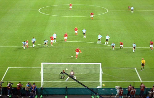 Beckham's PK. Argentina vs England. 2002 FIFA World Cup in Sapporo Dome.